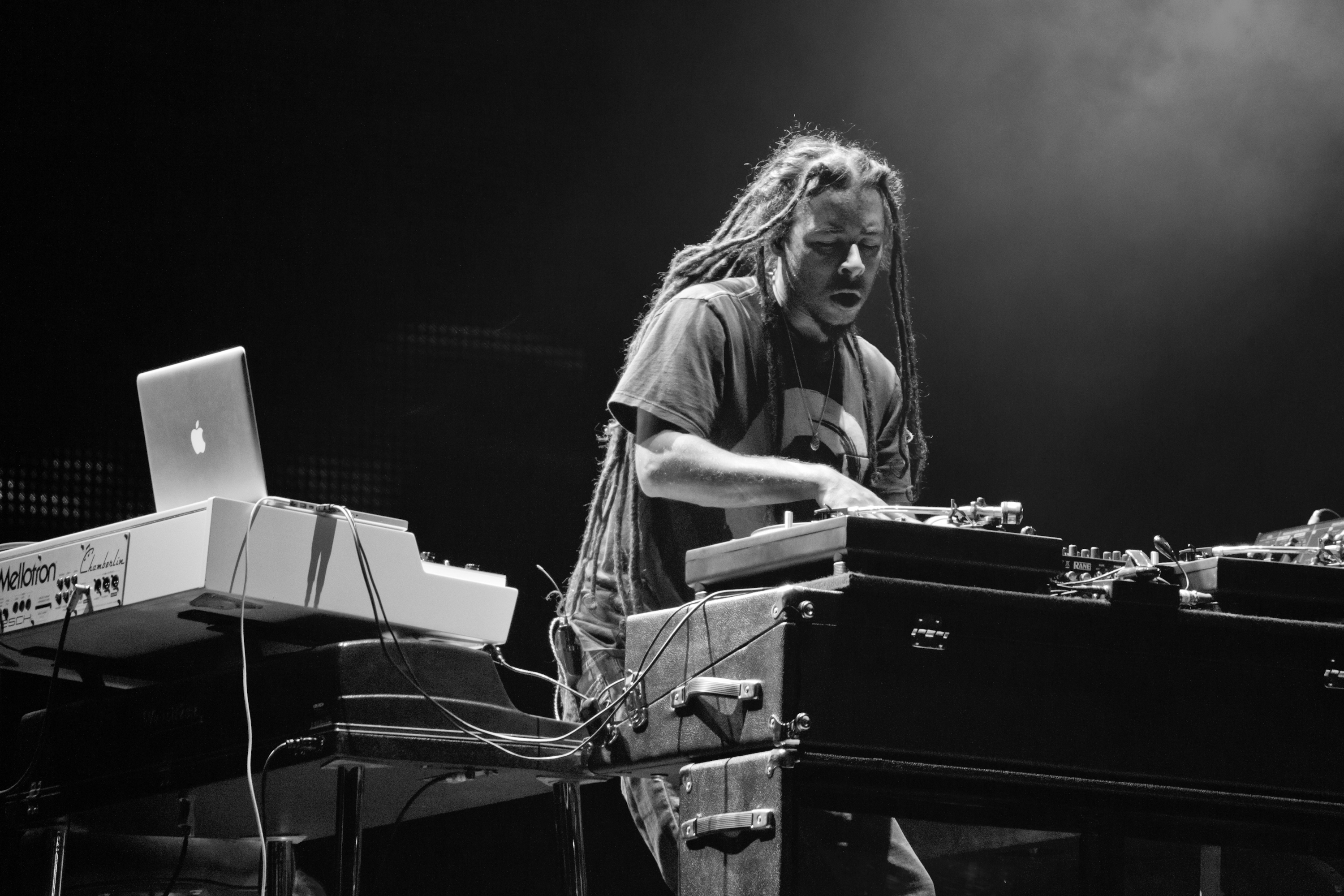 Incubus in Rock in Rio Madrid 2012.